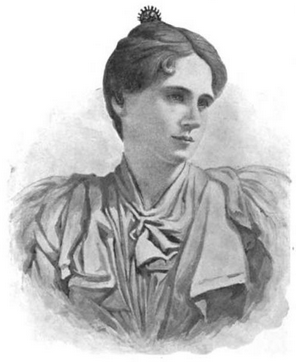 Mercedes Leigh Hearne, from an 1897 publication